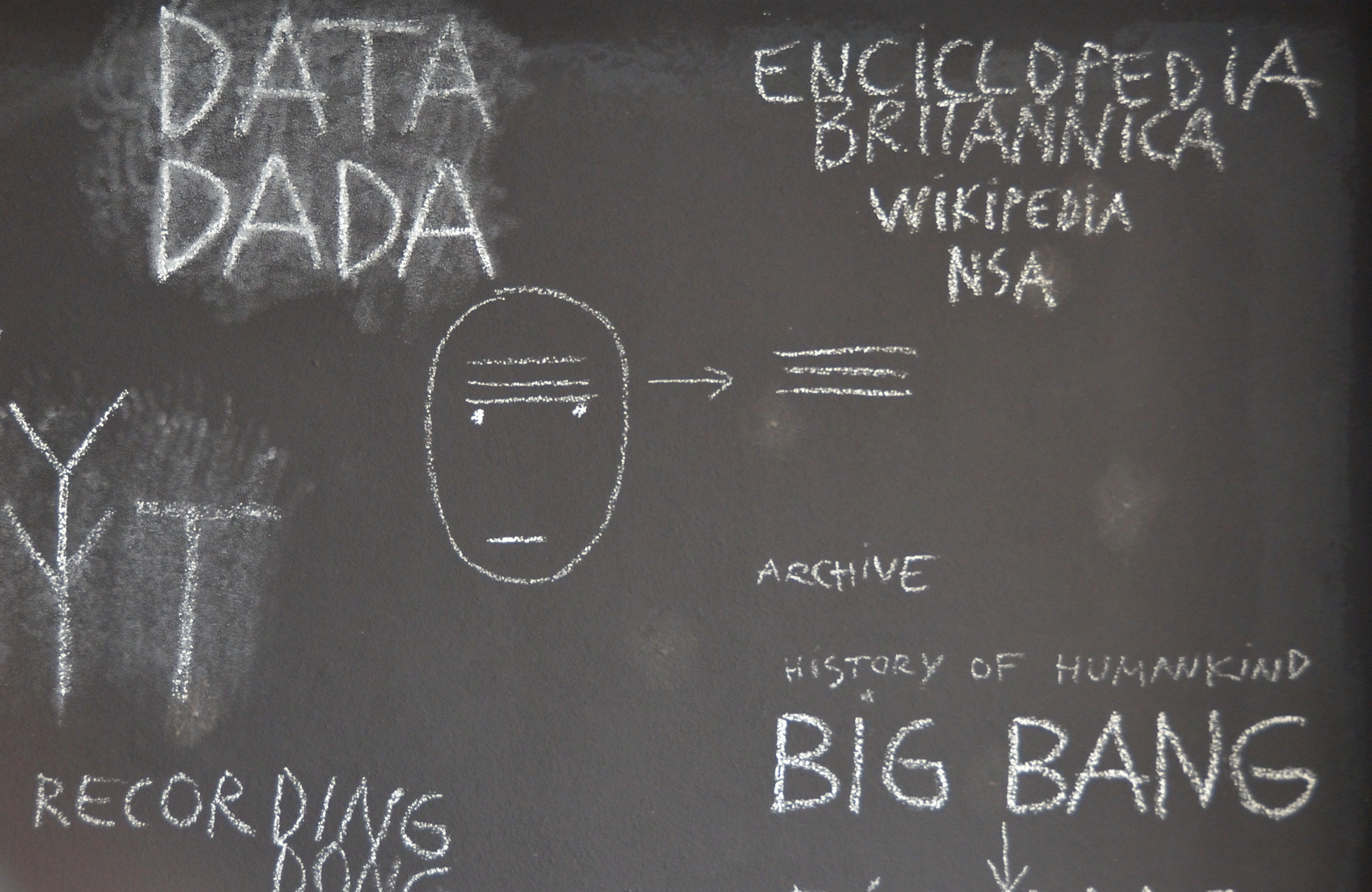 black belt drawing of the Romanian artist Dan Perjovschi in the MuseumsQuartier in Vienna in the publicly accessible area.